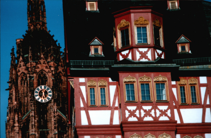 Frankfurt Imperial Cathedral and house Great Angel at Römerberg (historic town hall square)